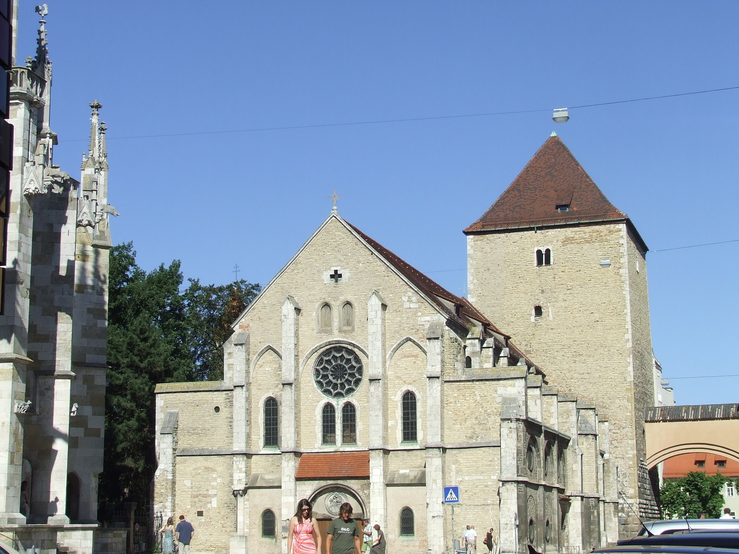 Regensburg, Church of Saint Ulrich.